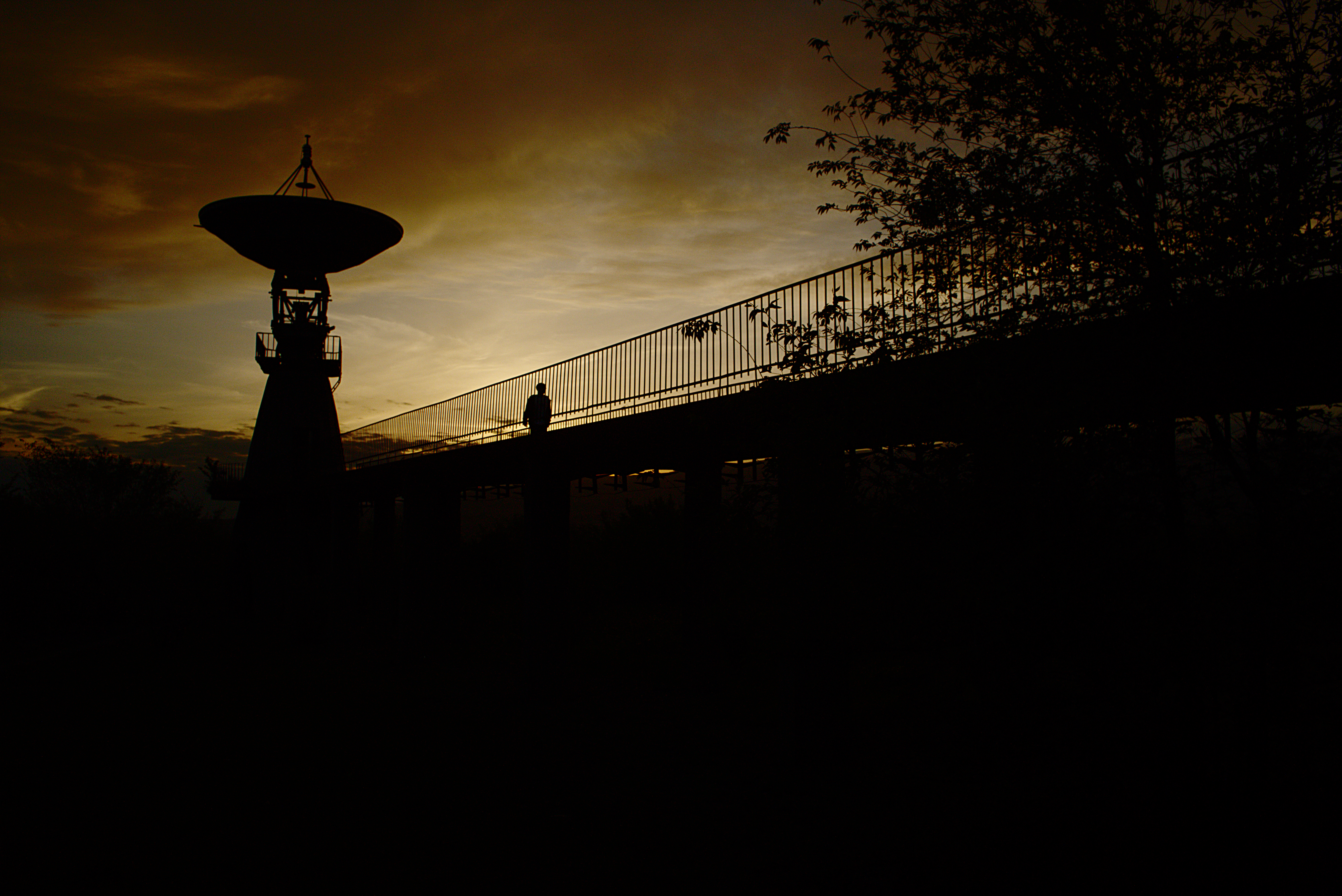 radio telescope at Ashtarak Institute of Radiophysics & Electronics